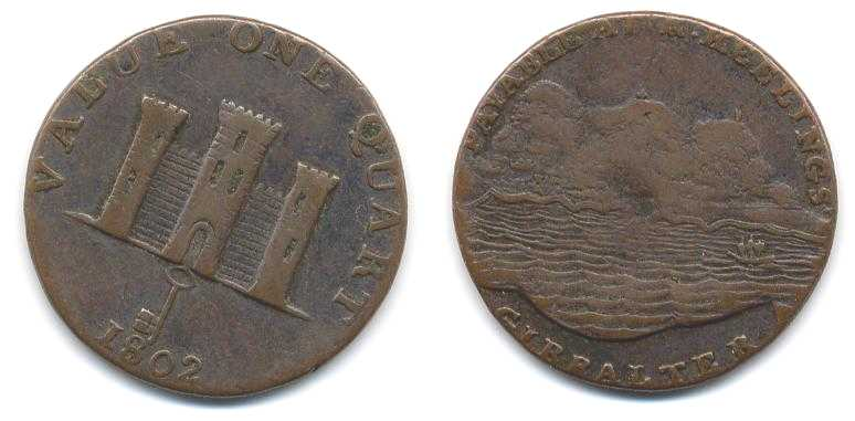 1802 quarto token issue of Gibraltar (see Gibraltarian real).